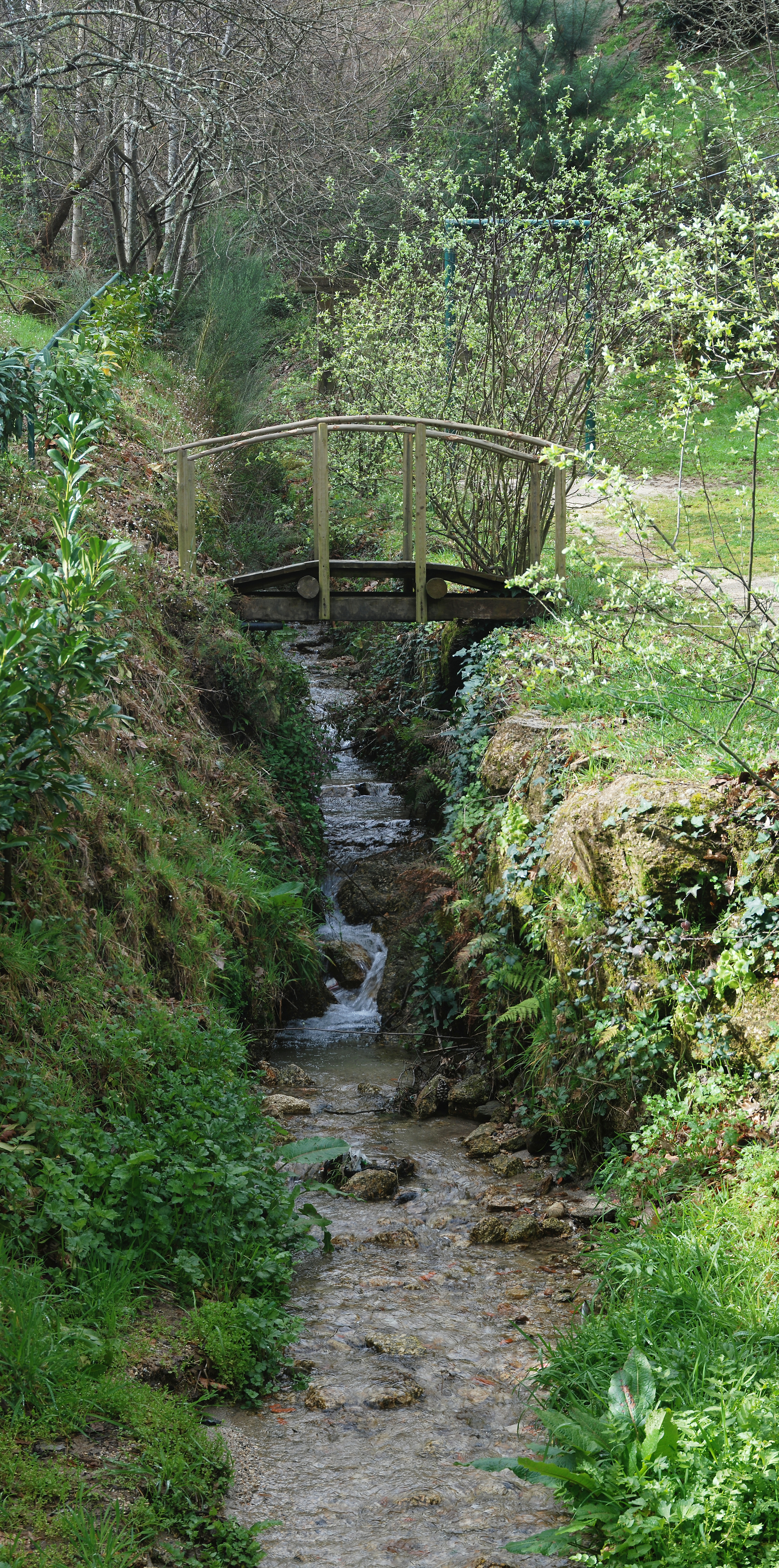 detail of a garden in Seia (Quinta do Crestelo), Portugal